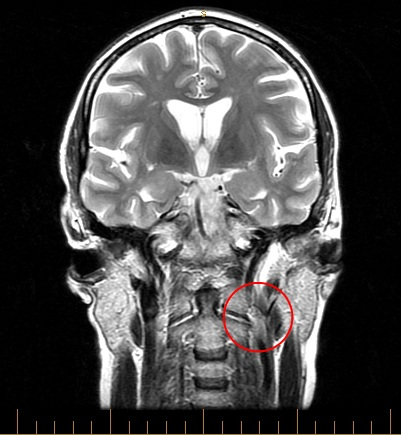 MRI image of a patient with CCSVI. Diagnosis: Distinct obliteration of the, as usual, smaller left internal jugular vein in front of the first and second cervical vertebrae